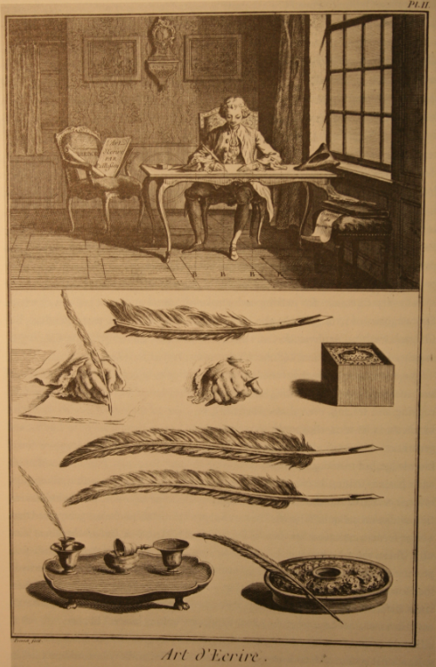 Charles Paillasson, L'Art d'écrire, 1763.